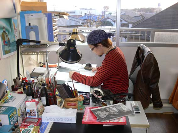 Makoto Yukimura, mangaka with "Vinland Saga", published in Kōdansha magazine Afternoon.